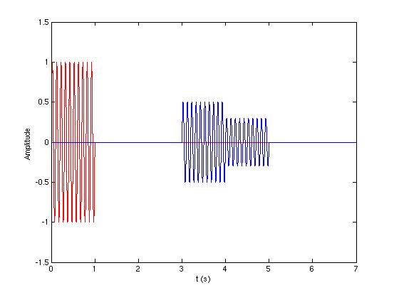 Poorly resoluted targets before pulse compression